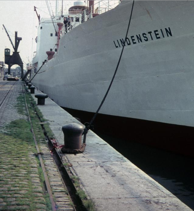 The German MV Lindenstein on the Scheldt quayside from Antwerp - 1968